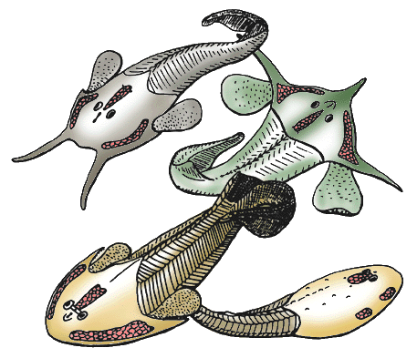 Tauraspis, Hoelaspis, Tremataspis, Zenaspis. Osteostracans are known from the Silurian and Devonian of Europe, Siberia and North America. They are characterized by peculiar "cephalic fields" of unknown function, on the dorsal surface of the head-shield (red). Although jawless, they share with jawed vertebrates well-developed paired fins, an epicercal tail, cellular bone, and a sclerotic ring in eyes. Their mouth and gill opening are ventrally placed, as in galeaspids and pituriaspids. Their median, dorsal, nasohypophysial aperture, anterior to the eyes, is strikingly similar to that of lampreys but is now regarded as a convergence. All the osteostracans reconstructed here belong to the major clade Cornuata, whose generalized morphology is exemplified by the zenaspidid Zenaspis (bottom left). Some highly derived head-shield morphologies are exemplified by the benneviaspidids Hoelaspis (top right) and Tauraspis (top left), or the thyestiid Tremataspis (bottom right). The latter has lost the paired fins, possibly as a consequence of an adaptation to burrowing habits.